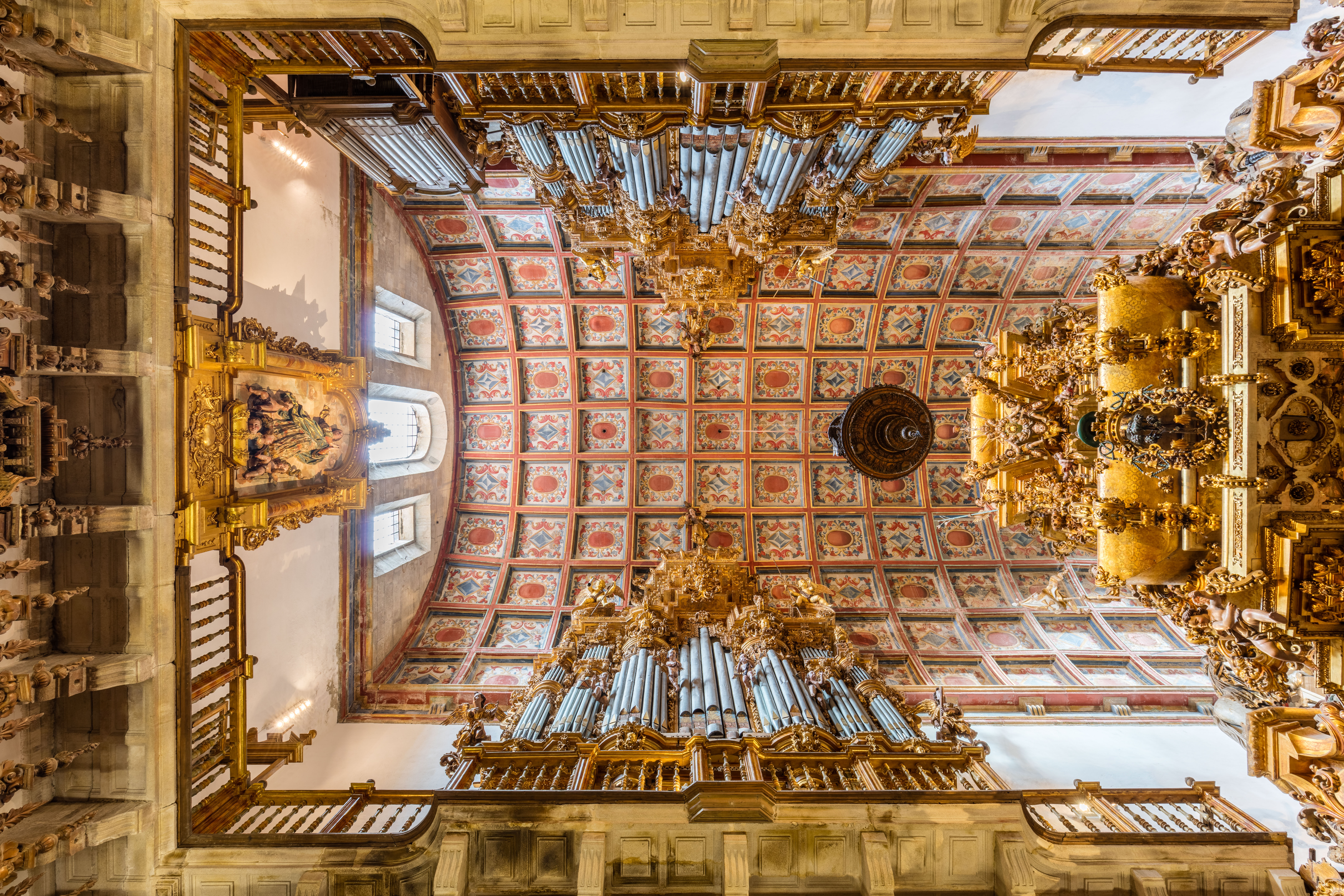 San Martin Monastery, Santiago de Compostela, SpainGalego: Mosteiro de San Martiño Pinario, Santiago de Compostela, Galiza